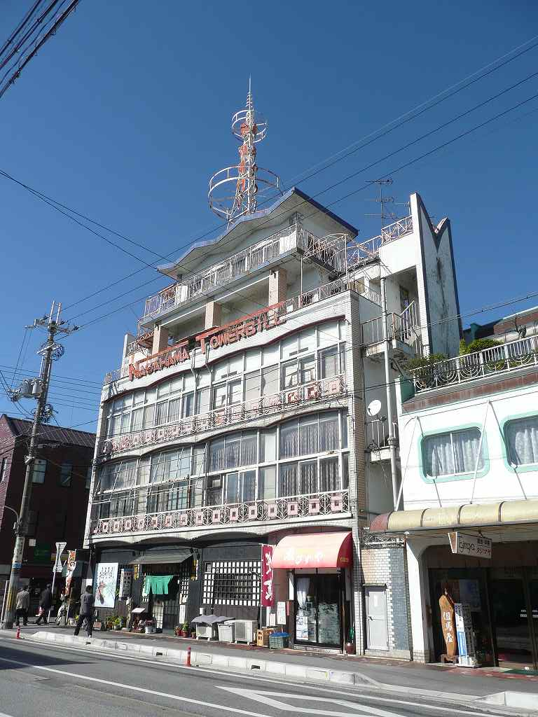 Nagahama Tower Building